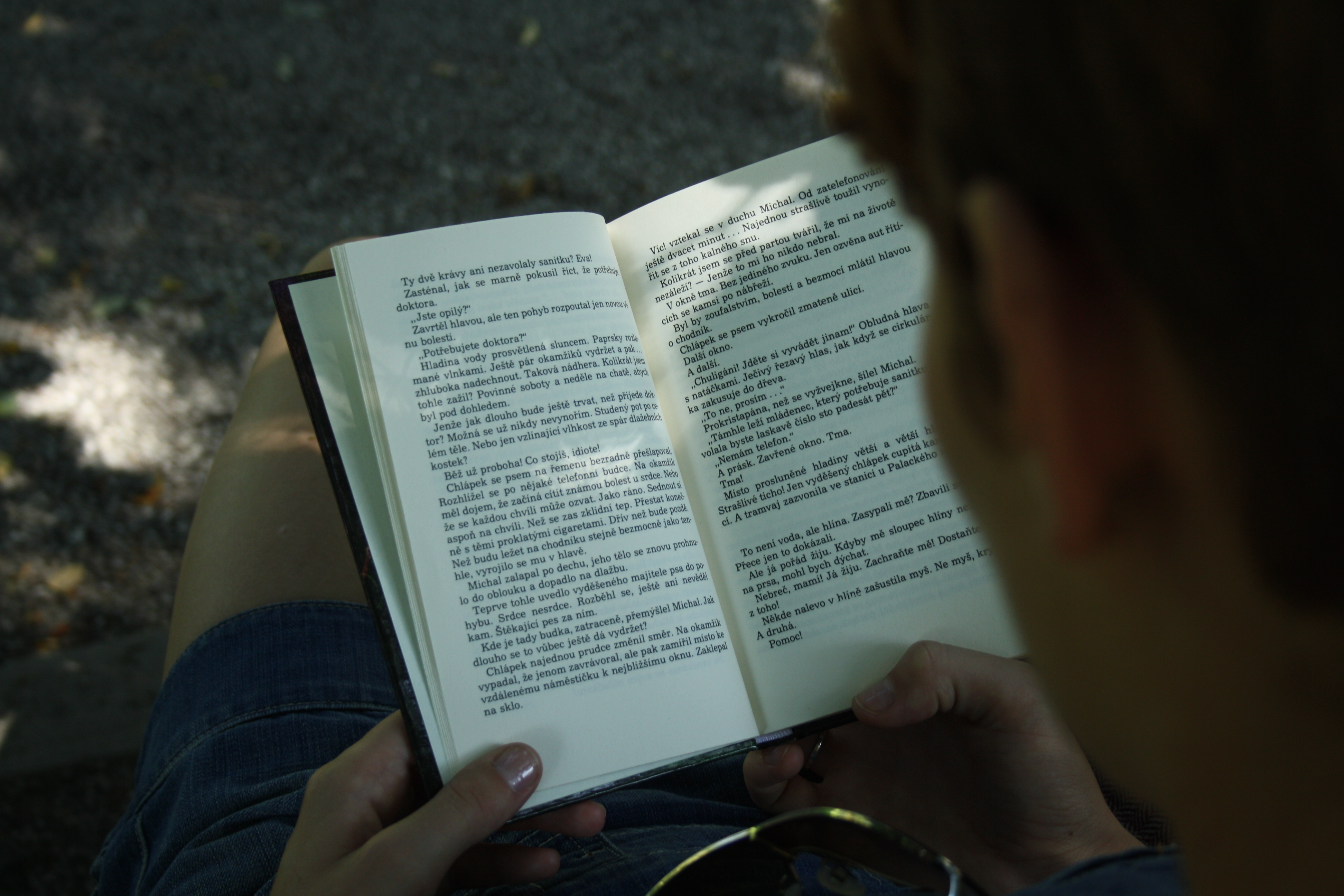 Girl reading a Memento by Radek John.